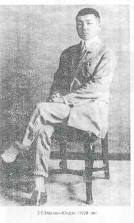 Student NAvaan-Yunden